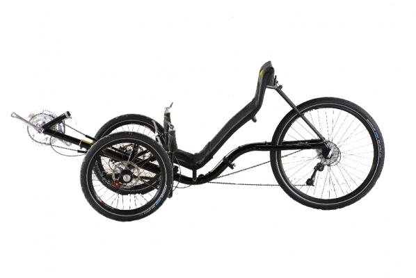 Q-Cycles Njunis in Tadpole design